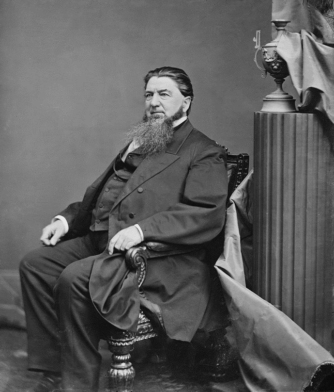 Tobias A. Plants from Brady Handy Collection.